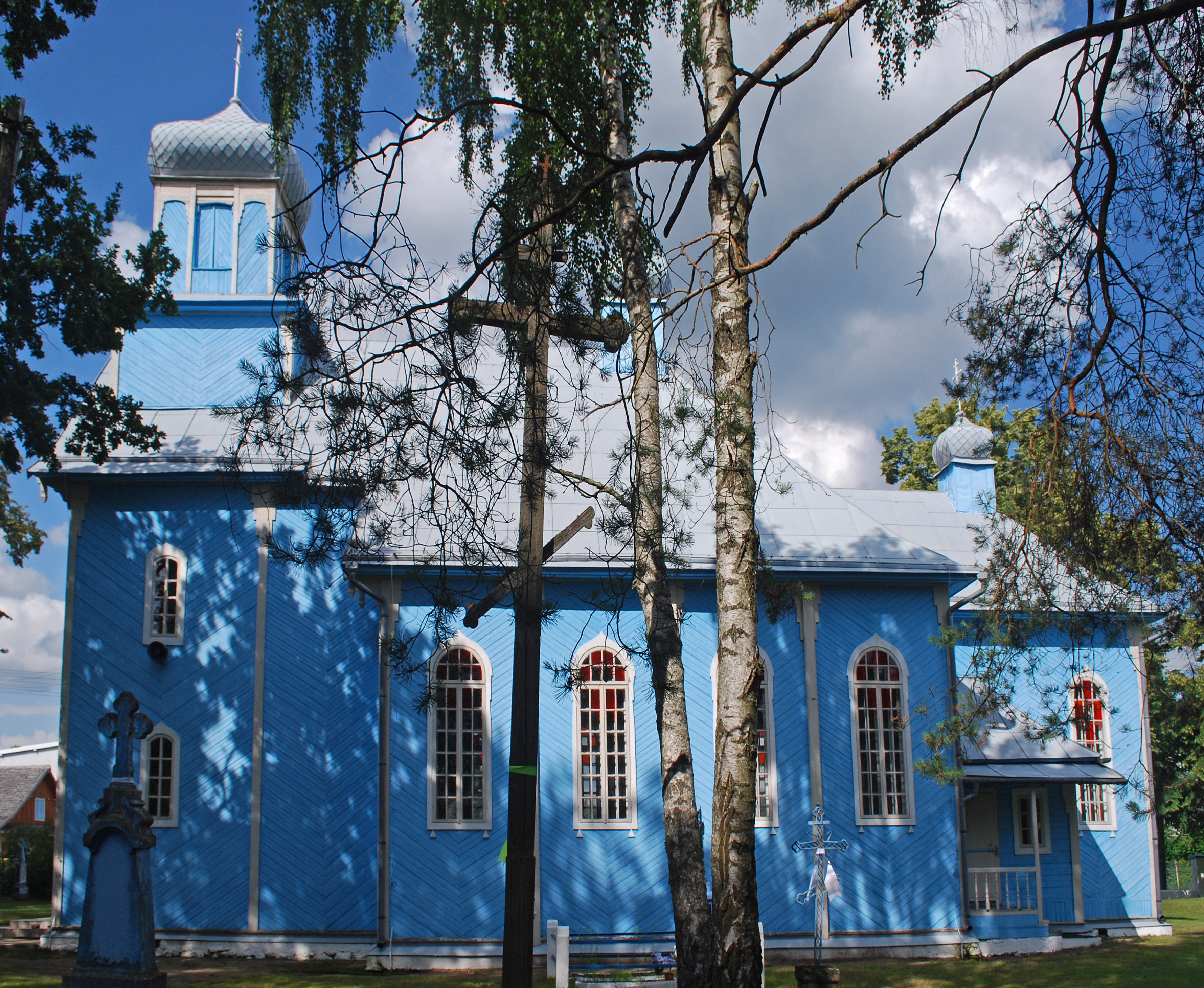 This photo from Podlaskie Voievodeship was taken during Polish Wikiexpedition 2009 set up by Wikimedia Polska Association. The making of this document was supported by Wikimedia Polska.